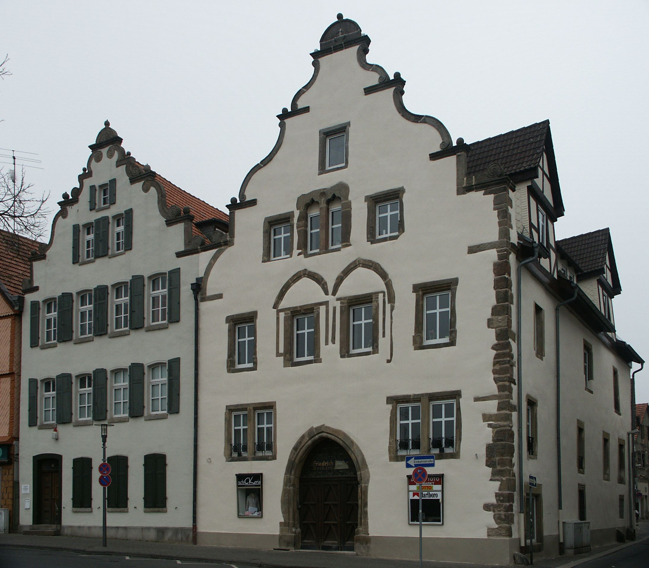 On the right side, the former mint of the Hersfeld Abbey